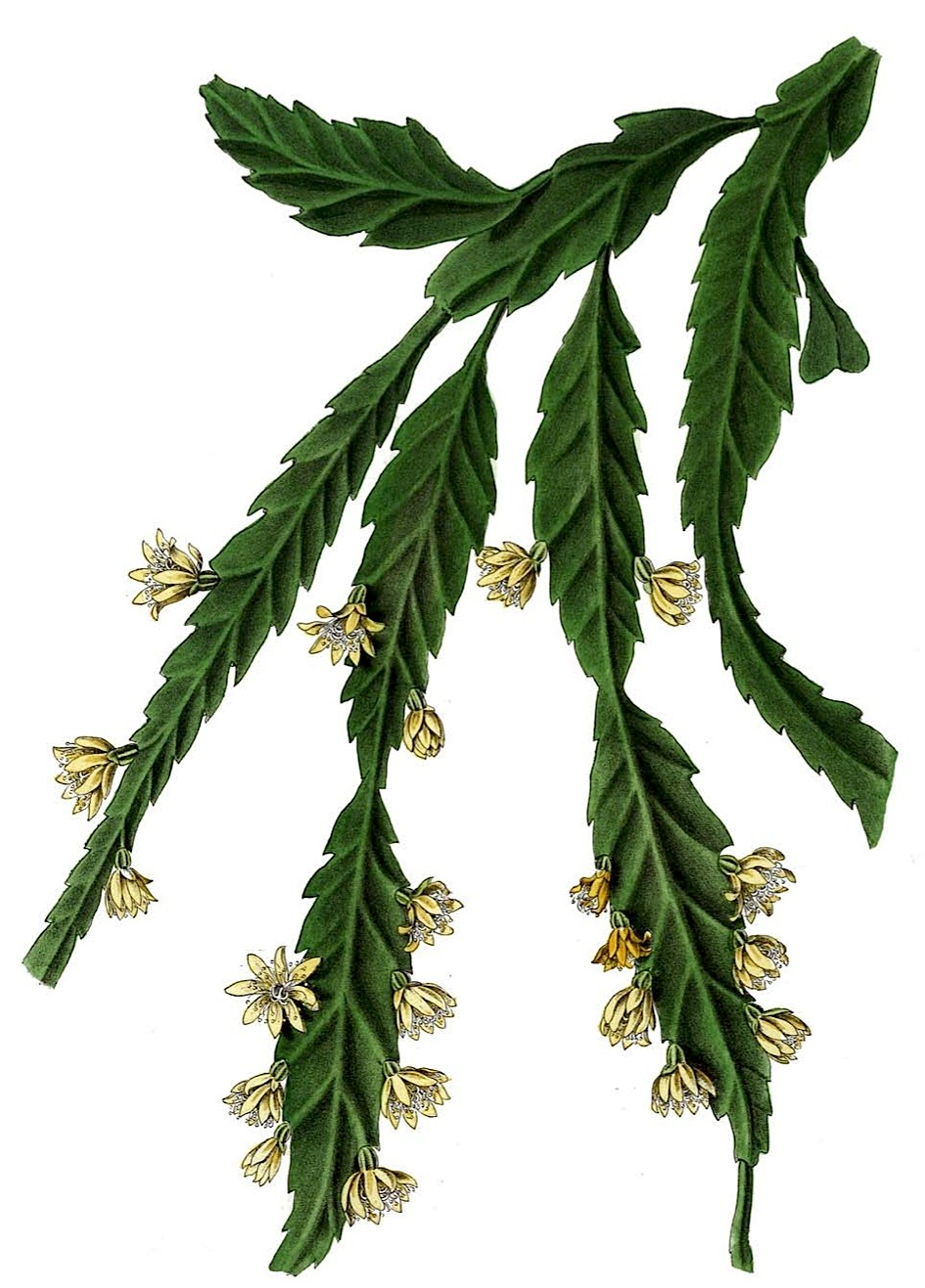 Lepismium houlletianum